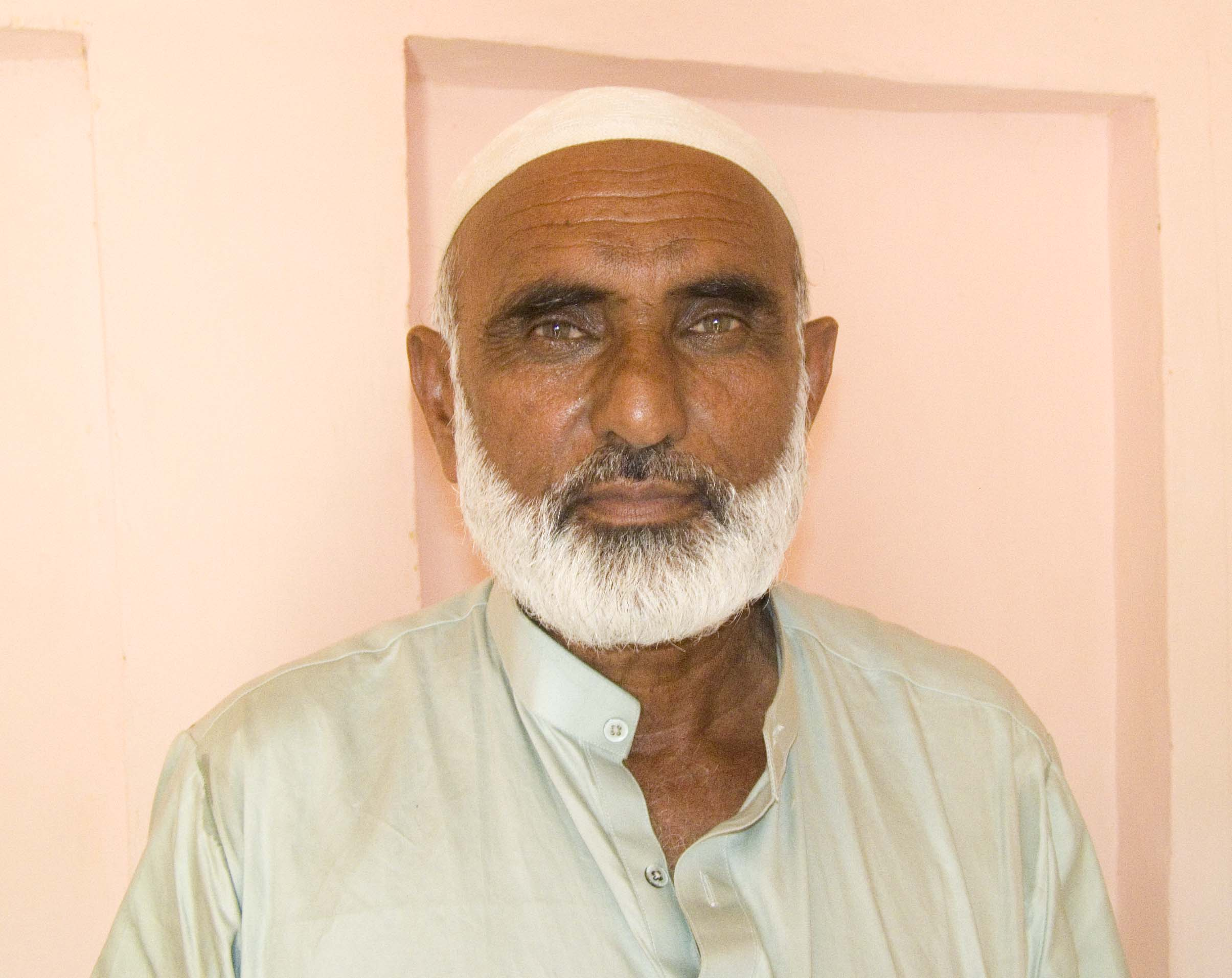 Umaid Ali Sathio, an author of several books in Sindhi; hailing from Tando Muhammad Khan, Sindh, Pakistan.